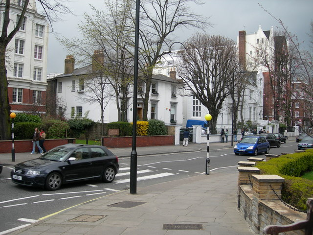 Abbey Road NW8 (2) These are the EMI studios, and in the foreground is the pedestrian crossing that was on a Beatles LP cover. To find out more about the history of these studios, click the link.... they were in use long before any of the Beatles had even been born!